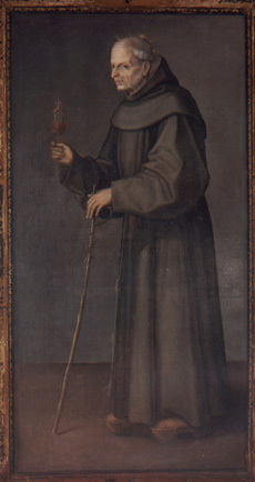 Venerable Pedro de Villacreces, franciscan friar and reformer (died 1422). Painting al San Pedro Regalado shrine (La Aguilera, Burgos)